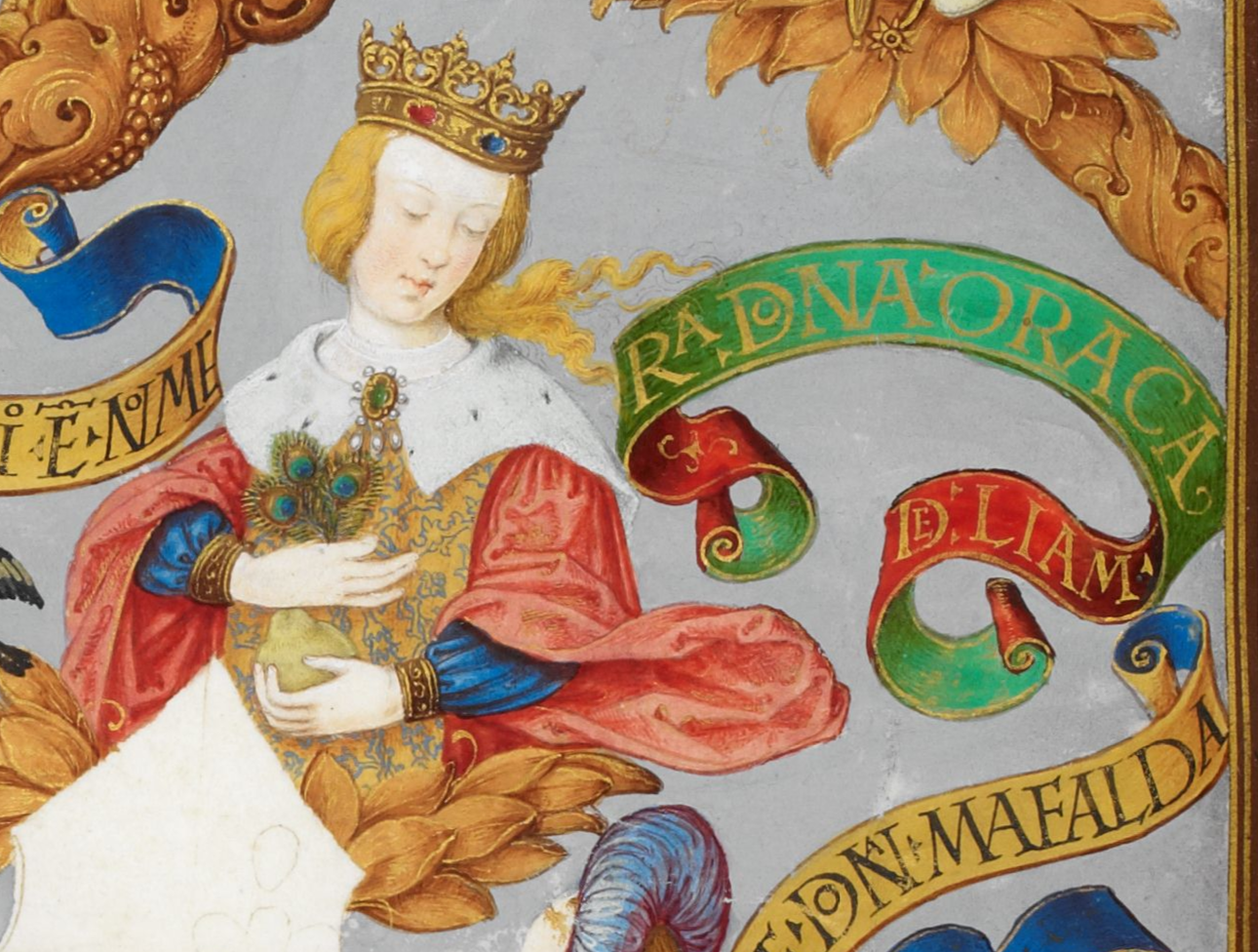 Urraca of Portugal (1151 – 1188), daughter of King Afonso Henriques of Portugal, and queen consort of León following her marriage to Ferdinand II of León.